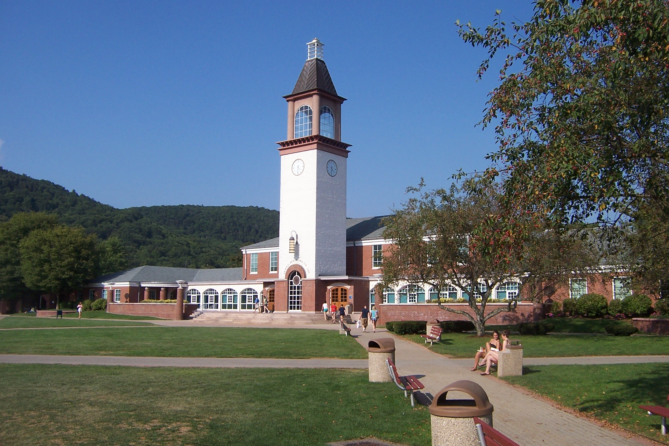 Quinnipiac University's Arnold Bernhard Library and clock tower, with Sleeping Giant in background.